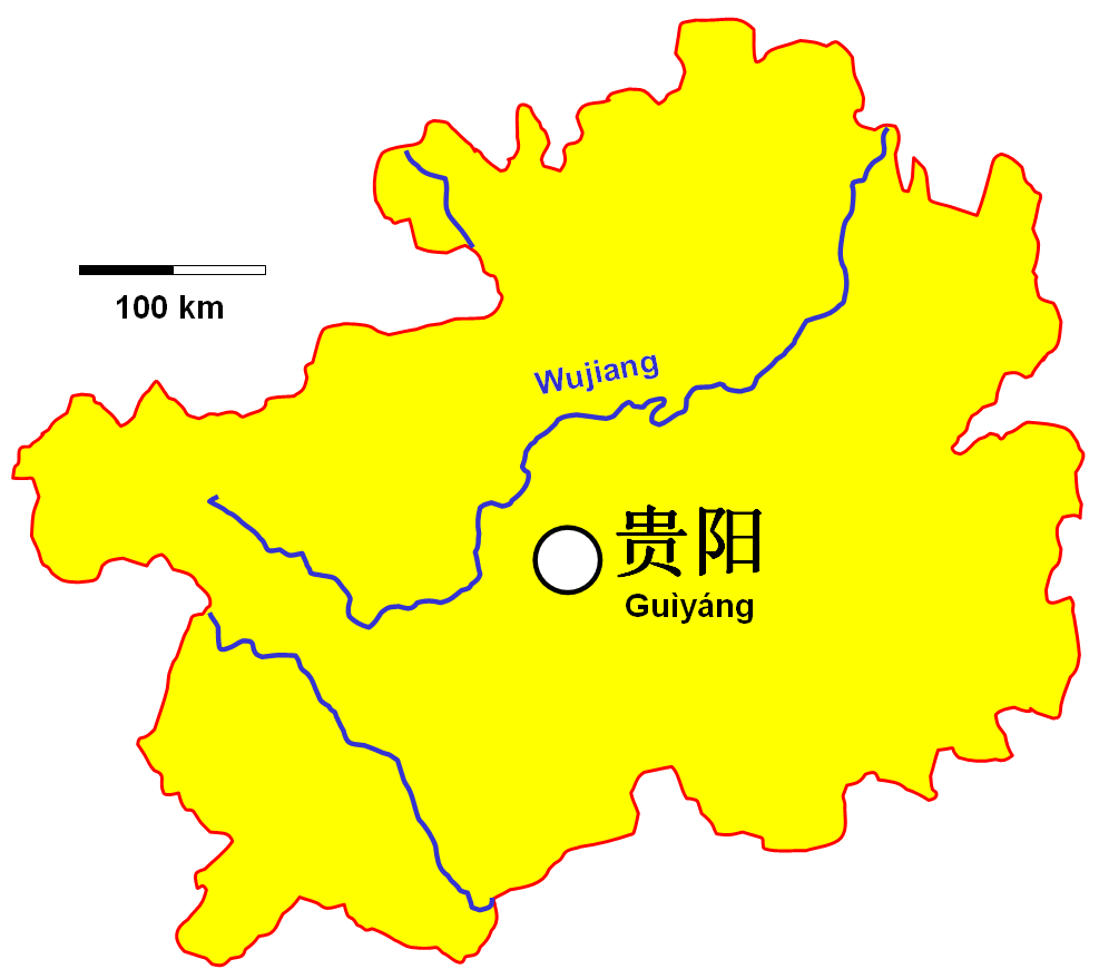 Description: location of Guiyang in the Chinese province of Guizhou Source: own work Date: December 2005 Author: --Immanuel Giel 14:26, 13 December 2005 (UTC) Other versions: none